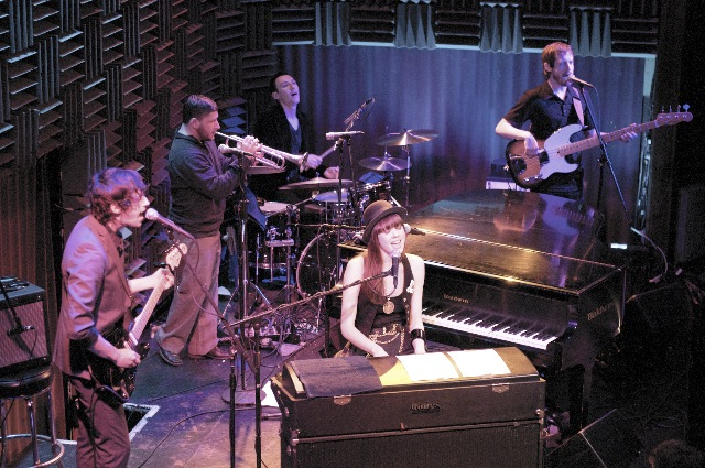 Diane Birch at Joe's Pub, New York City by Stephanie F. Black [